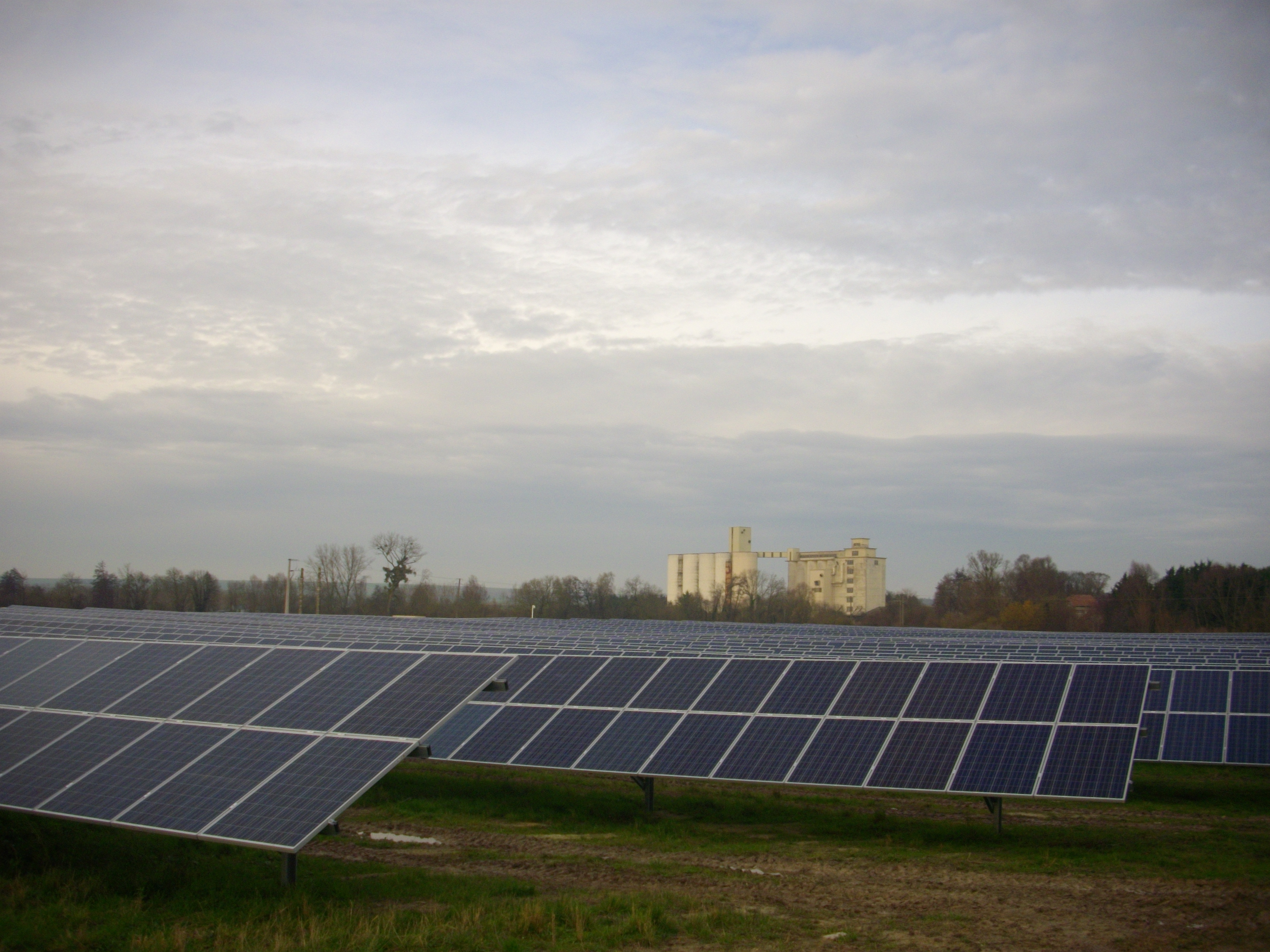 Photovoltaic power station southern of Bétheniville (Marne, France)